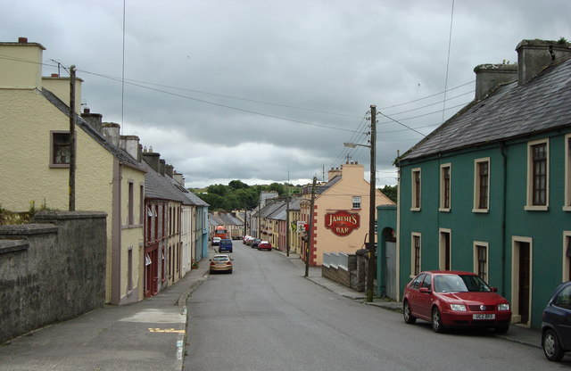 Baile an tSratha: Ballintra